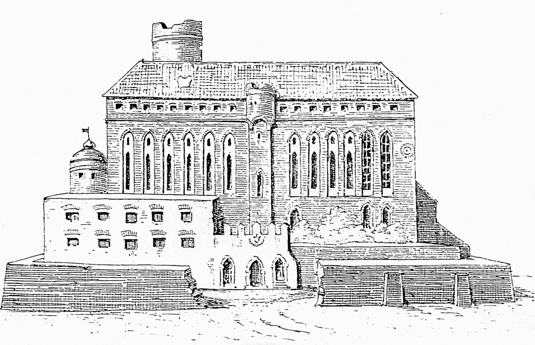 The Teutonic Knights Castle in Grudziądz, 2nd H. of the 13th c. (destroyed). Southern side in 18th century, after litography